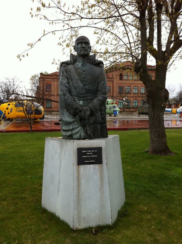 Spanish officer and pioneer of aeronautic. Statue in Museo de Aeronáutica y Astronáutica de España, Madrid.